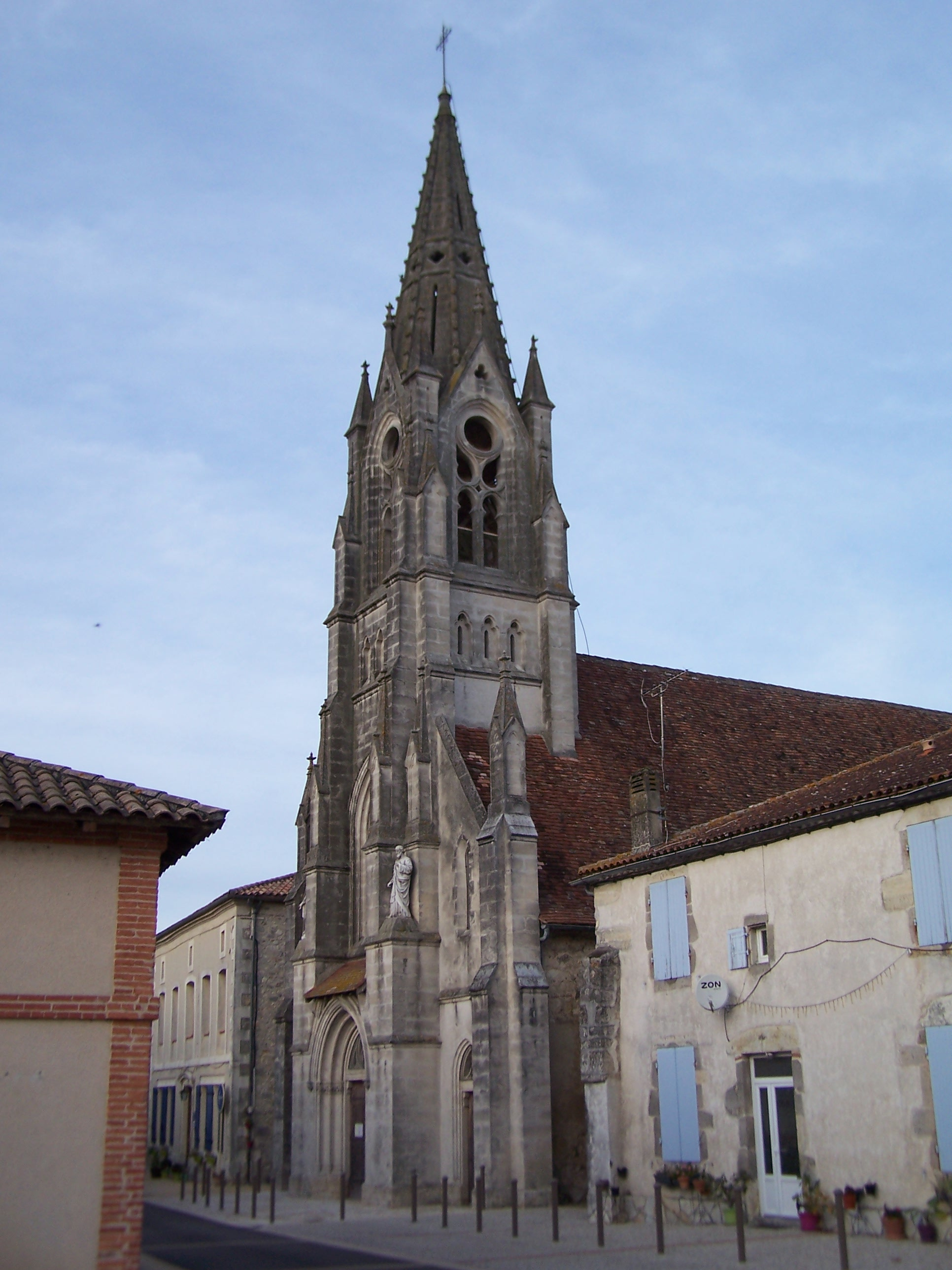 Our Lady church of Villefranche-du-Queyran (Lot-et-Garonne, France)